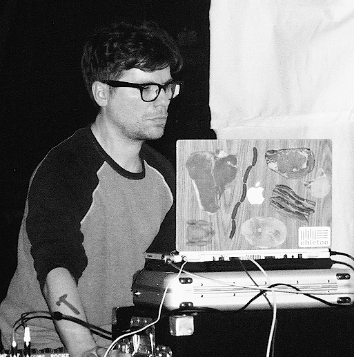 Taken in Baltimore, MD, US